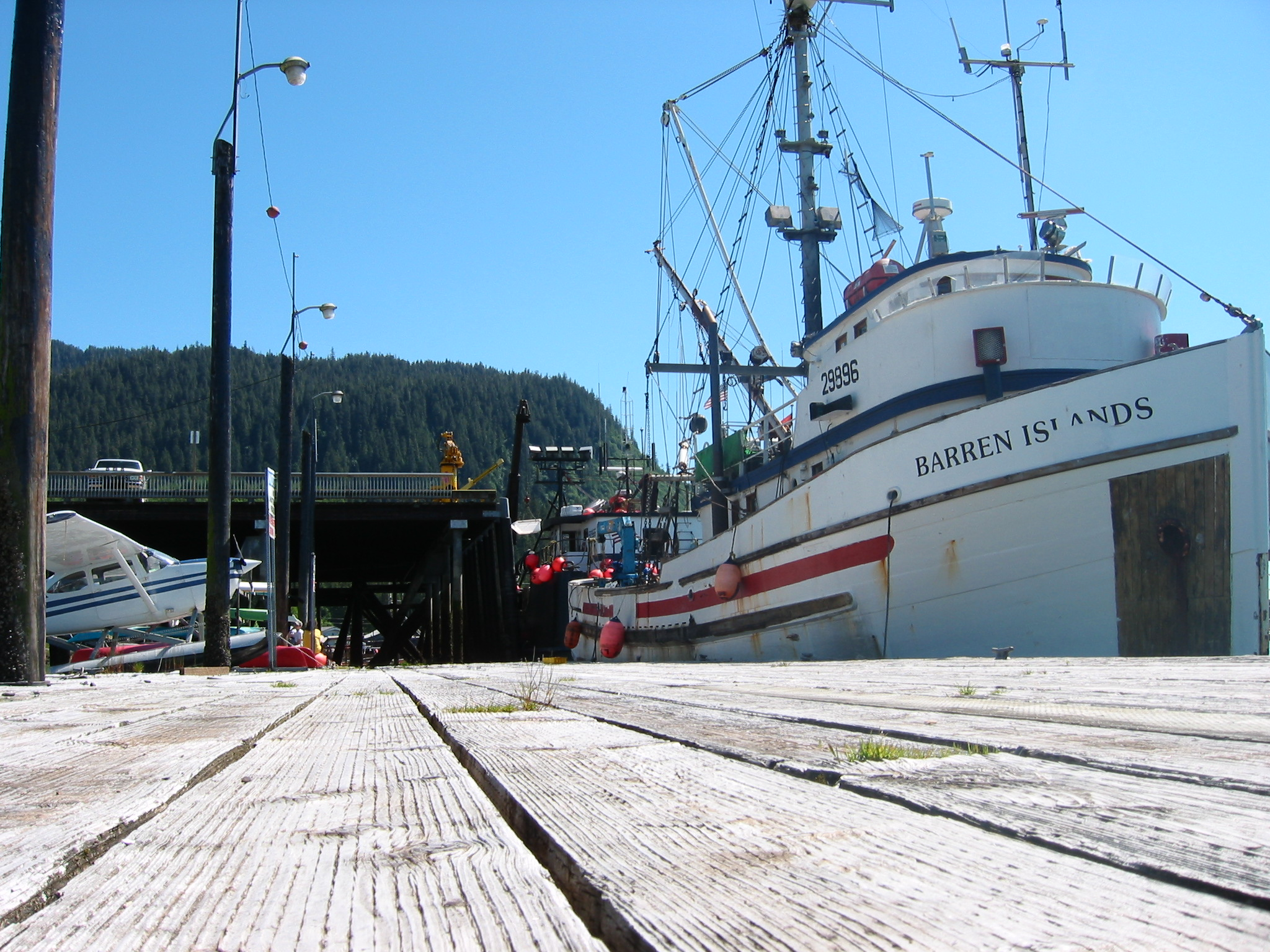 Commercial fishing boats unloading at Wrangell Harbor in Wrangell, Alaska.